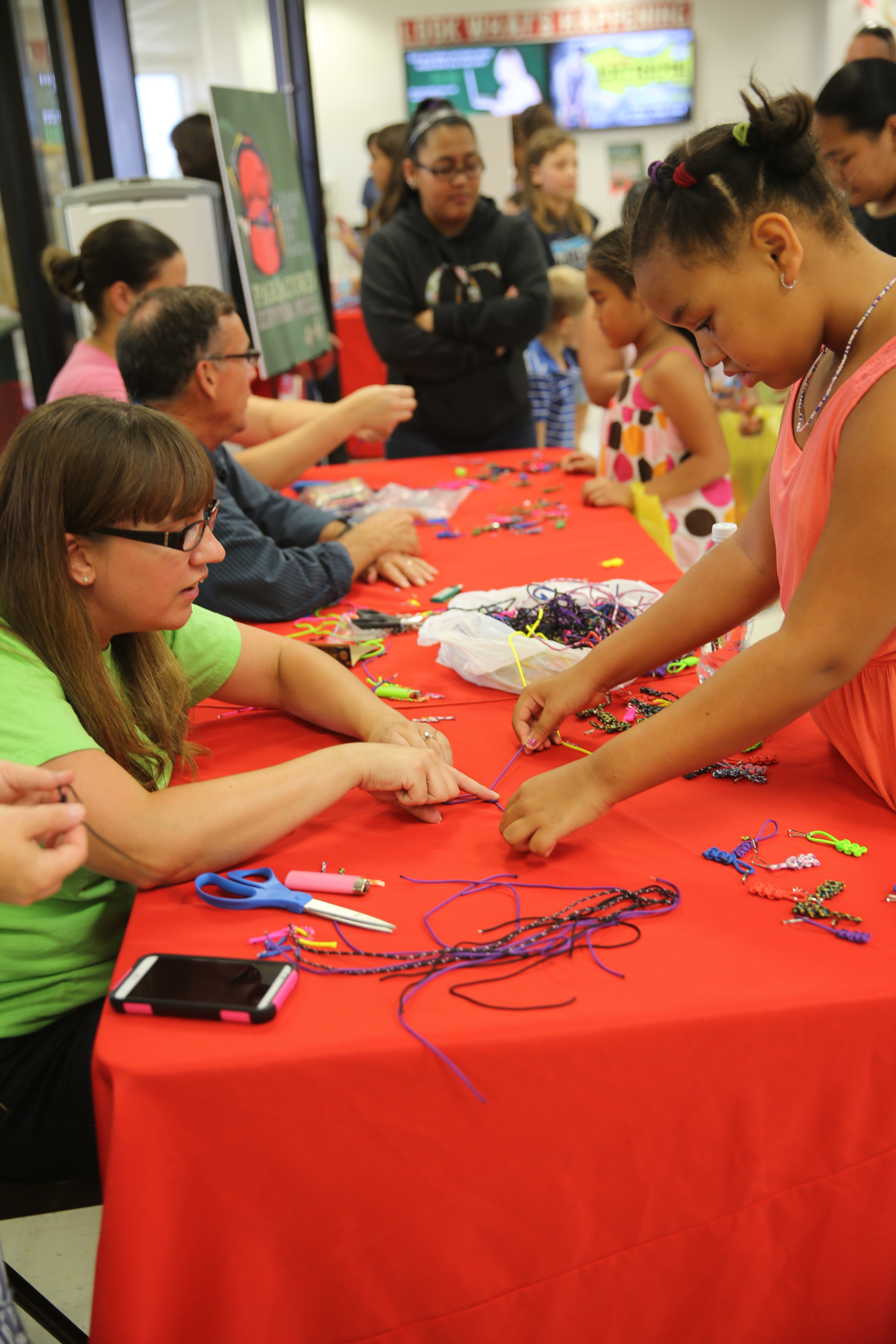 Children make backpack key chains as part of a back-to-school event at Marine Corps Air Station Cherry Point, Aug. 14, 2014. During the event, children of active-duty and reserve service members met with Disney Channel star Sabrina Carpenter for photos and autographs. The event also featured a healthy eating class where children learned what components make a healthy, well-balanced lunch. Craft stations were set up for children to make a key chain for their backpack and fill out a time capsule sheet to reopen at the end of the year for the children to see how their lives have changed.